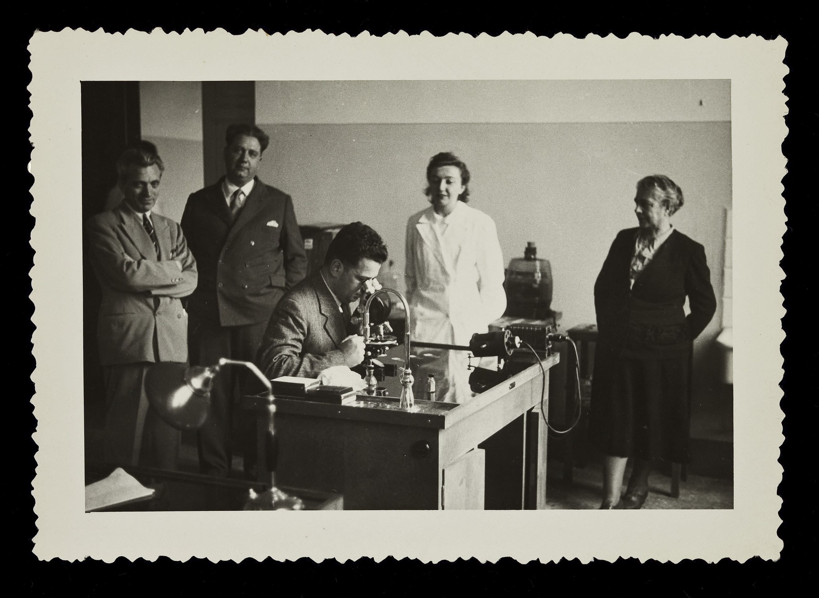 Hans Gruneberg at a microscope surrounded by colleagues in 1952. Gruneberg's research as a geneticist focussed largely on the mouse. He published his book 'The Genetics of the Mouse' in 1943. Digitised for CODEBREAKERS, MAKERS OF MODERN GENETICS Archives & Manuscripts